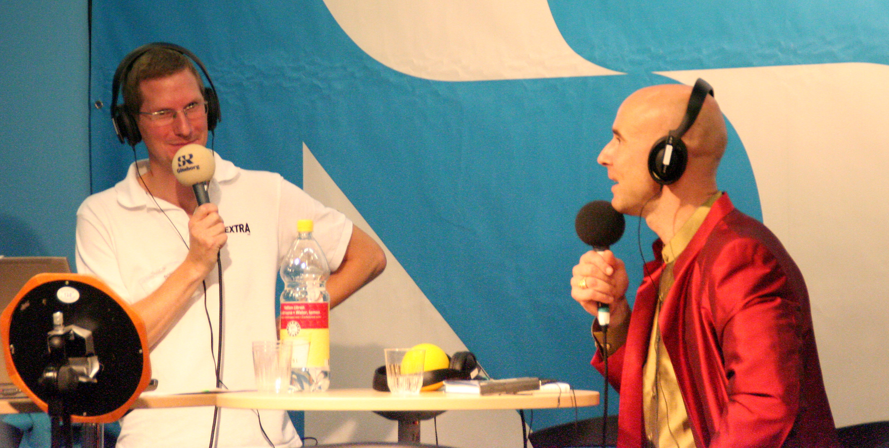 Swedish media personality Mark Levengood interviewed by Swedish Radio. Cropped version.